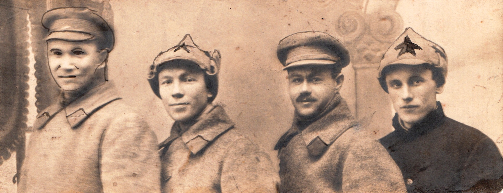 Sergei Petrovich Volkov